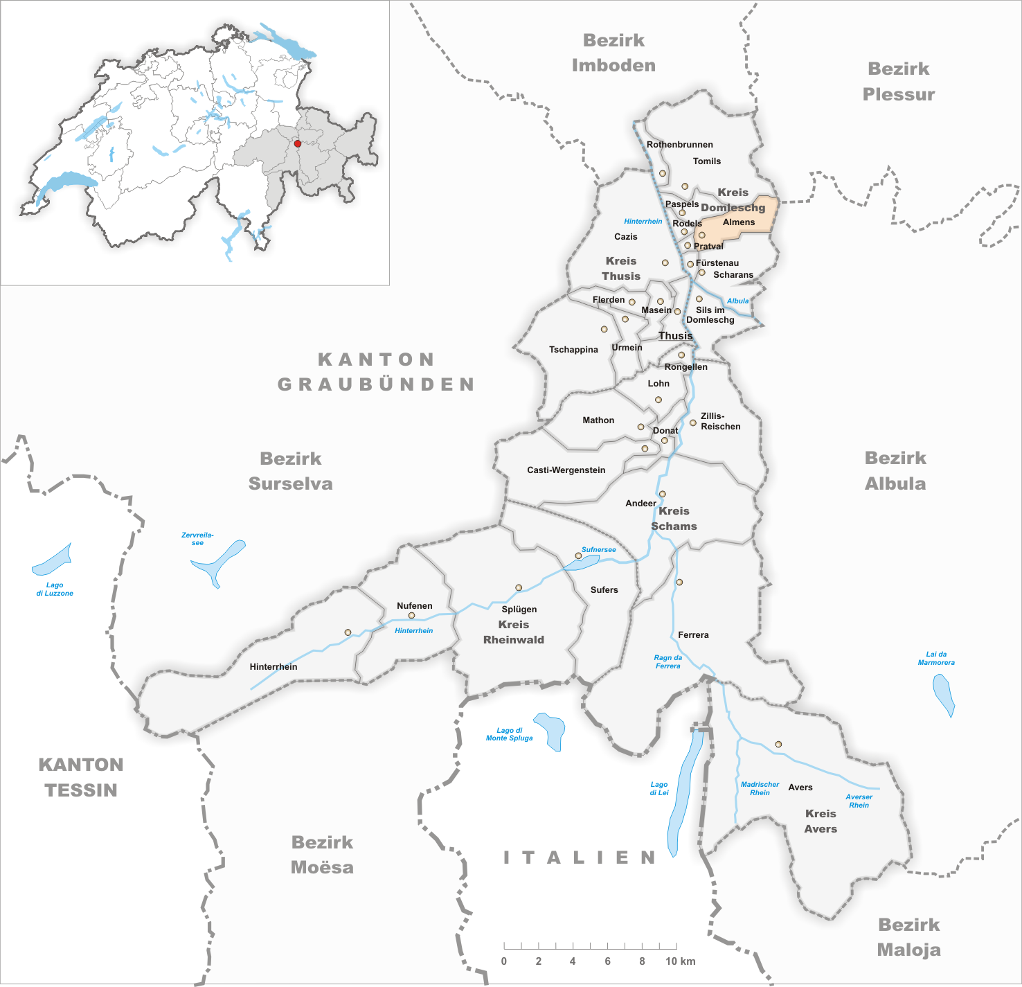 Municipality Almens